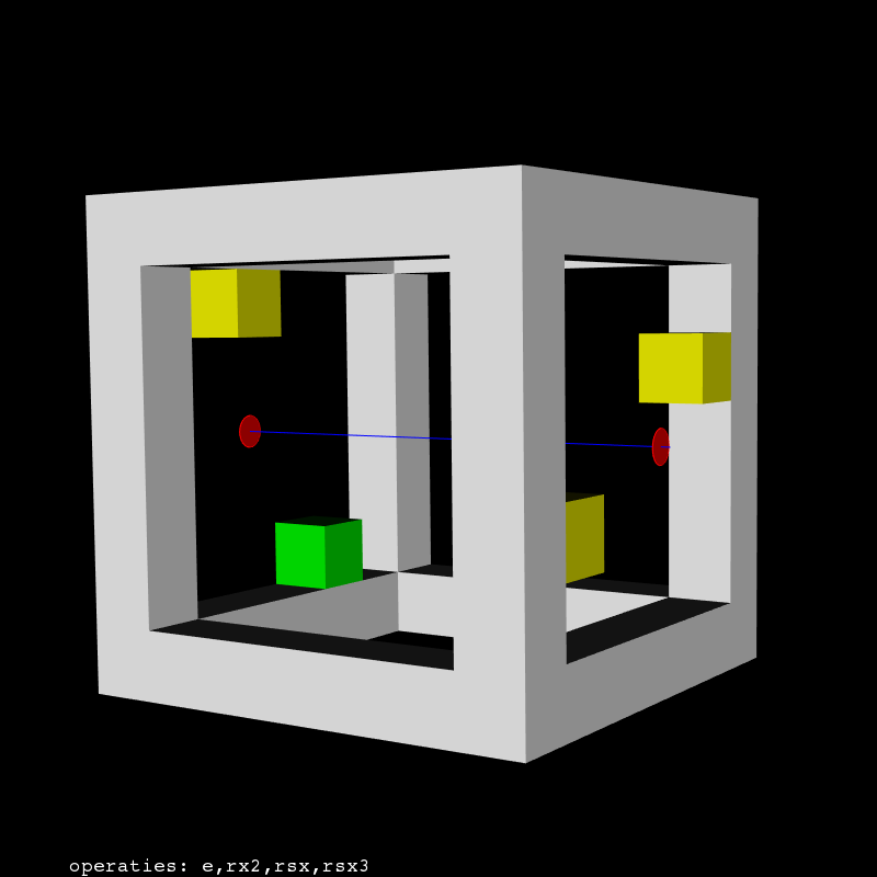 Outputfigure by my Pyhton/VTK program